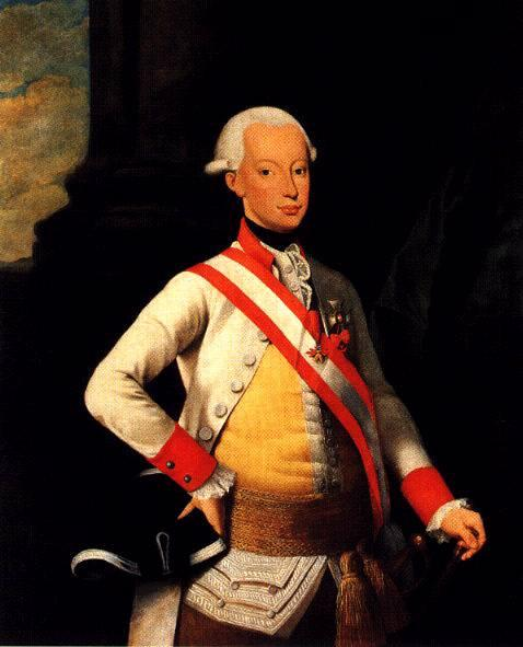 Portrait of Grand Duke Pietro Leopoldo I di Asburgo-Lorena (1747-1792)